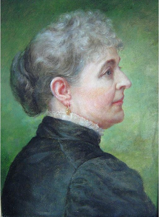 Oil on canvas by Lilly M. Spencer (Lilly Martin Spencer) of Caroline Scott Harrison in profile view.